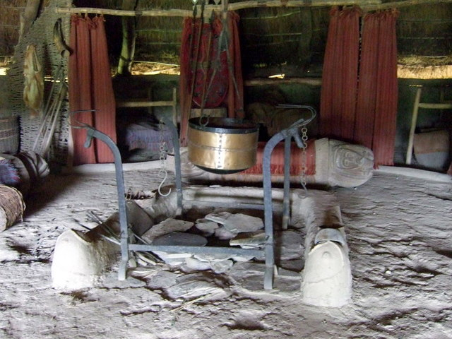 Bed and breakfast in the Iron Age One of the Castell Henllys round houses includes these 'bed-chambers' curtained-off for the privacy, one imagines, of superior members of the clan. Vegetable dyes were used to colour the woven woollen material. The fire would have been used for cooking and for warmth on this carved log seating, and the smoke would permeate through the thatched roof rather than escaping through a hole since introducing oxygen would be a fire risk.